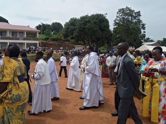 The school's teacher parents and the Fathers